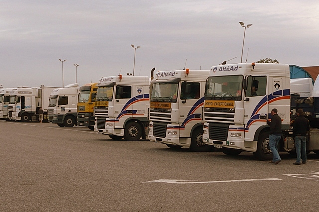 Lorry park at Chieveley services Many of these are foreign lorries parked here for the night.